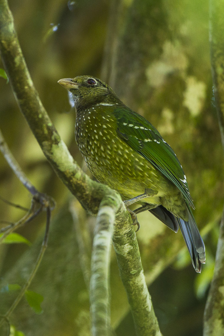 Green Catbird - Lamington NP - Queensland_S4E6944